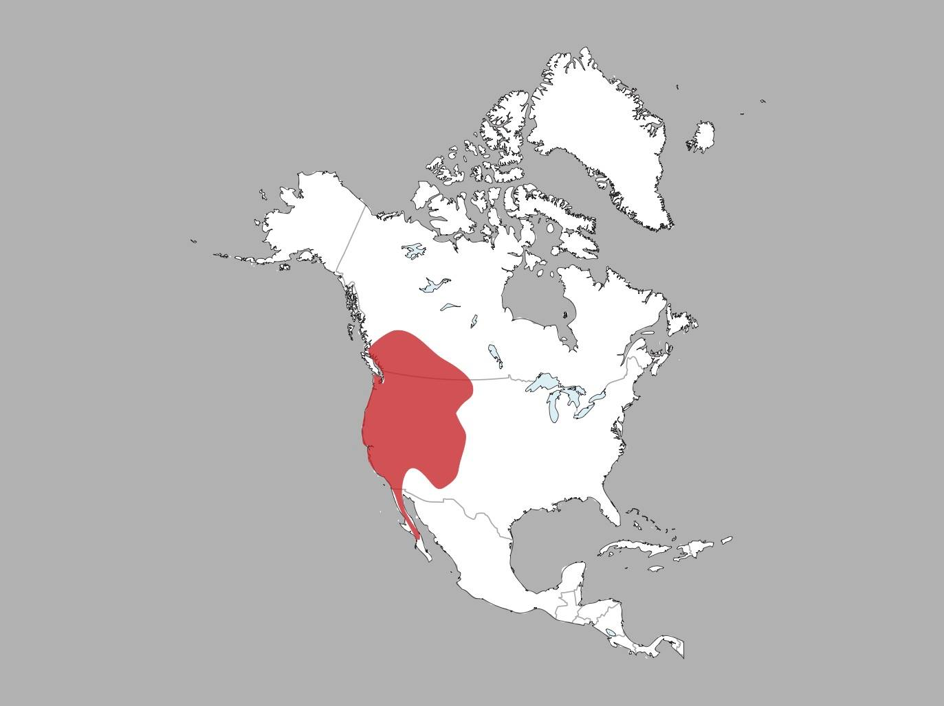 Range of the Long-eared myotis